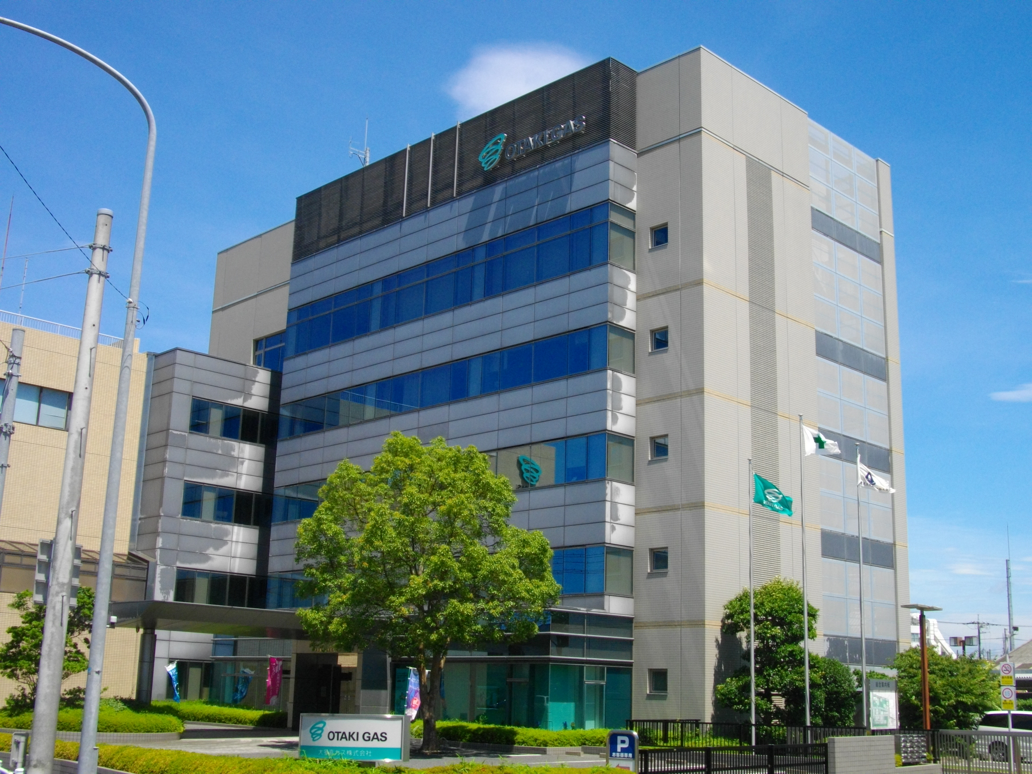 Otaki Gas Head Office